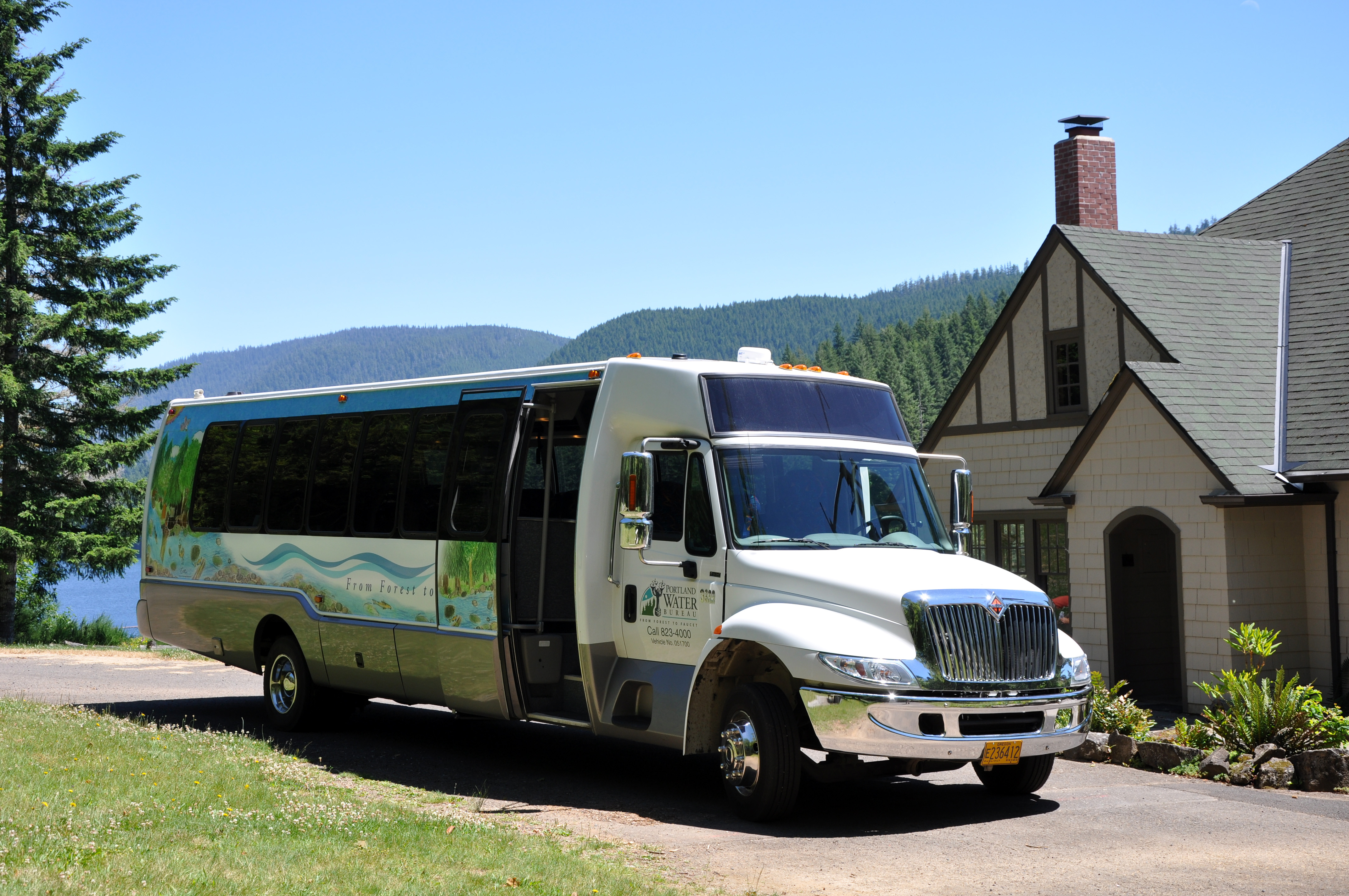 The Portland Water Bureau's tour bus parks in front of a water bureau building below Reservoir 1 on the Bull Run River in northwestern Oregon in the United States.